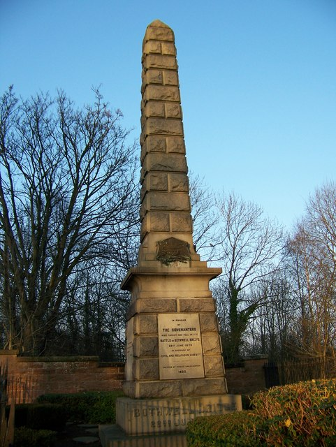 Monument to the battle of Bothwell Bridge, where the Covenanters were defeated by the Royal army on 22 June 1679. Erected in 1903 at the north end of the rebuilt bridge. Inscription reads: "In honour of the Covenanters who fought and fell in the Battle of Bothwell Bridge 22nd June 1679 in defence of civil and religious liberty - erected by public subscription 1903"